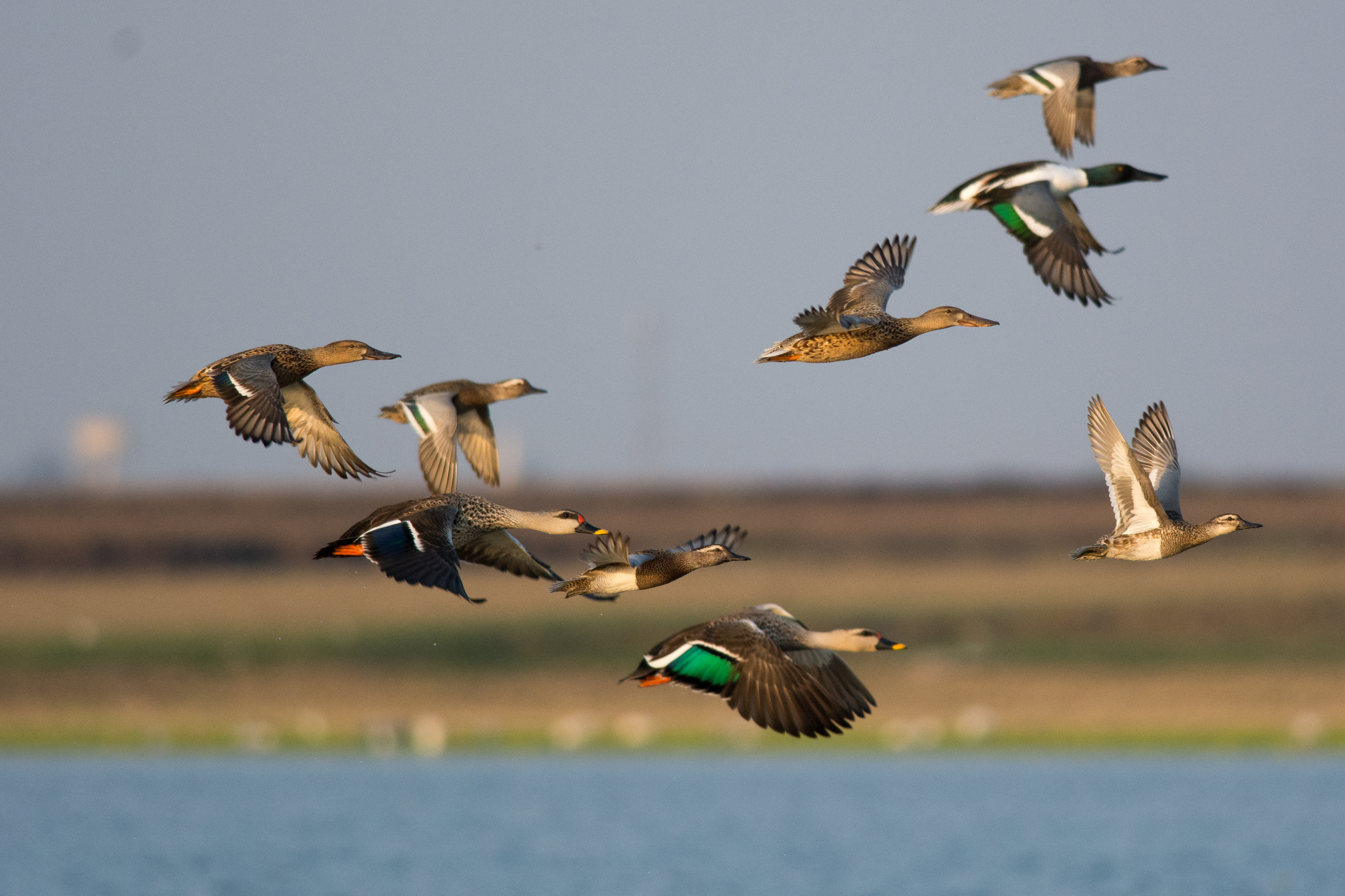 Spot-bills,Shovellers, Garganeys in Flight